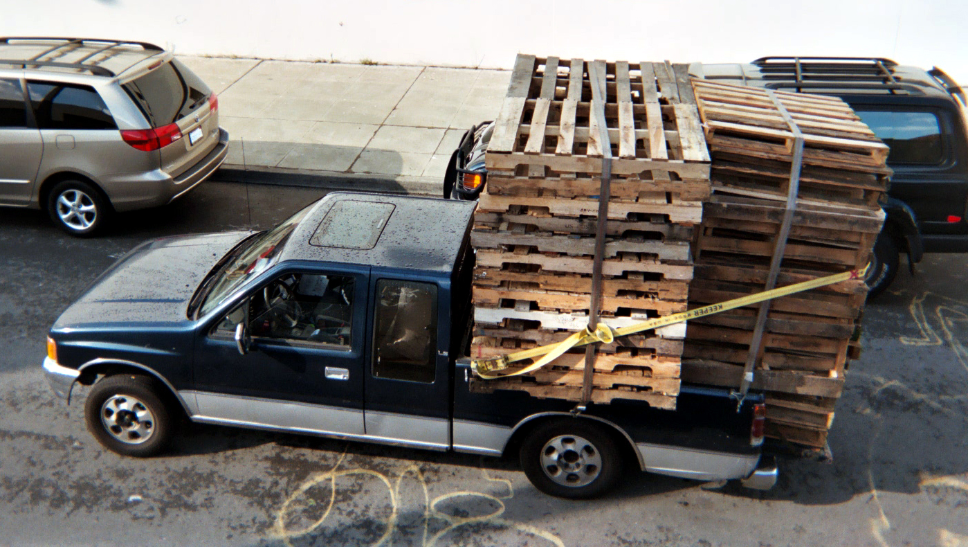 Mosquito Fleet 1 Ton pickup truck loaded with 46qty. GMA 48 X 40 pallets.